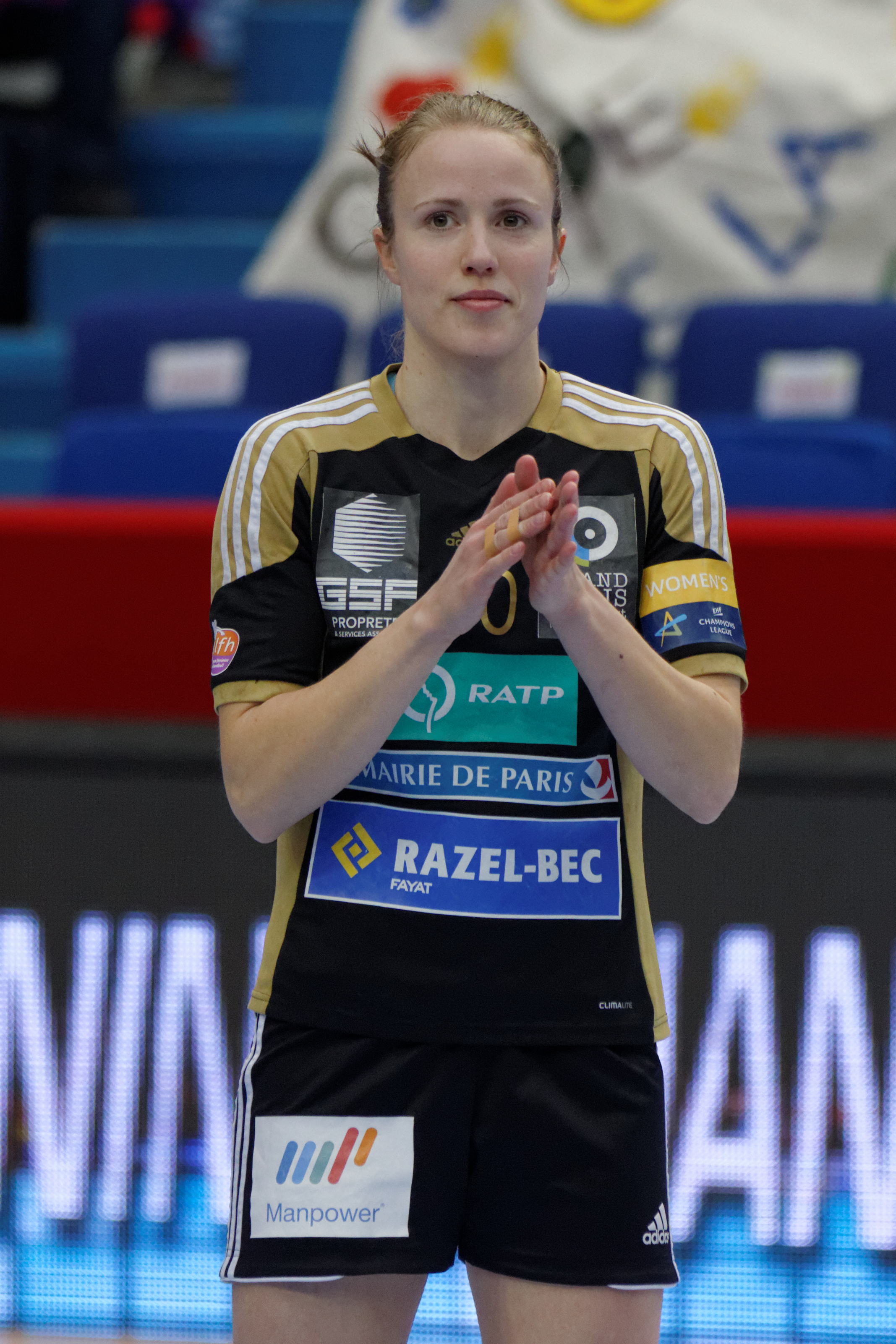 Final of the Women's handball French cup 2013. Handball Cercle Nîmes vs Issy Paris Hand, stadium Pierre-de-Coubertin at Paris.